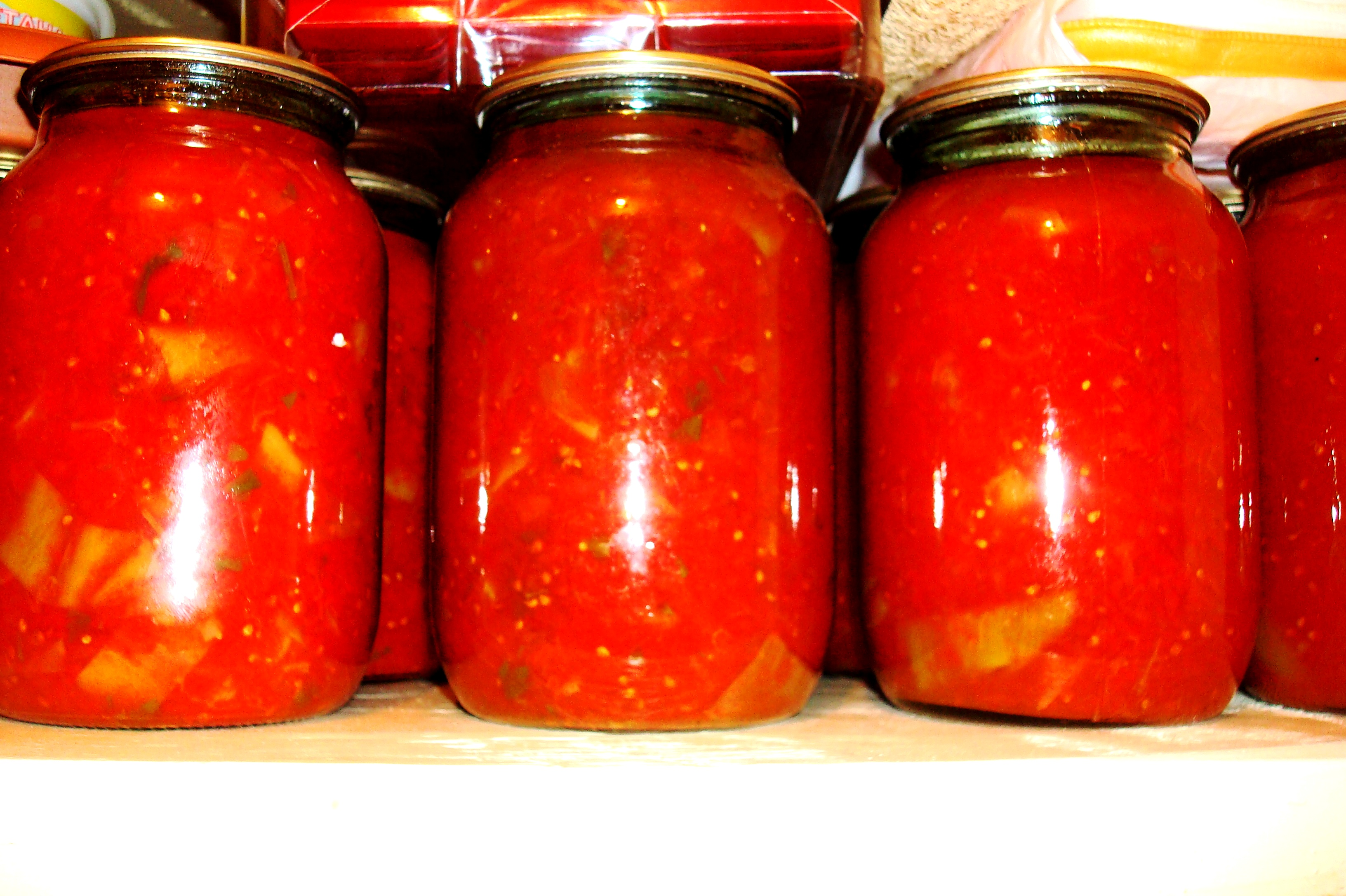 Cans of homemade lecsó